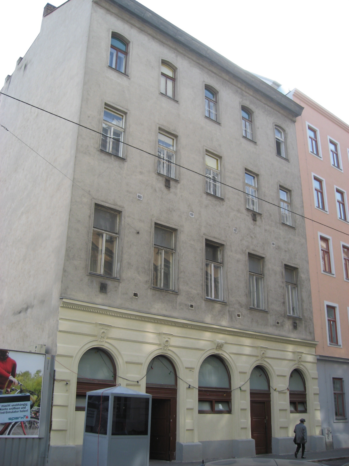 Schiffschul synagogue in Vienna's II. district